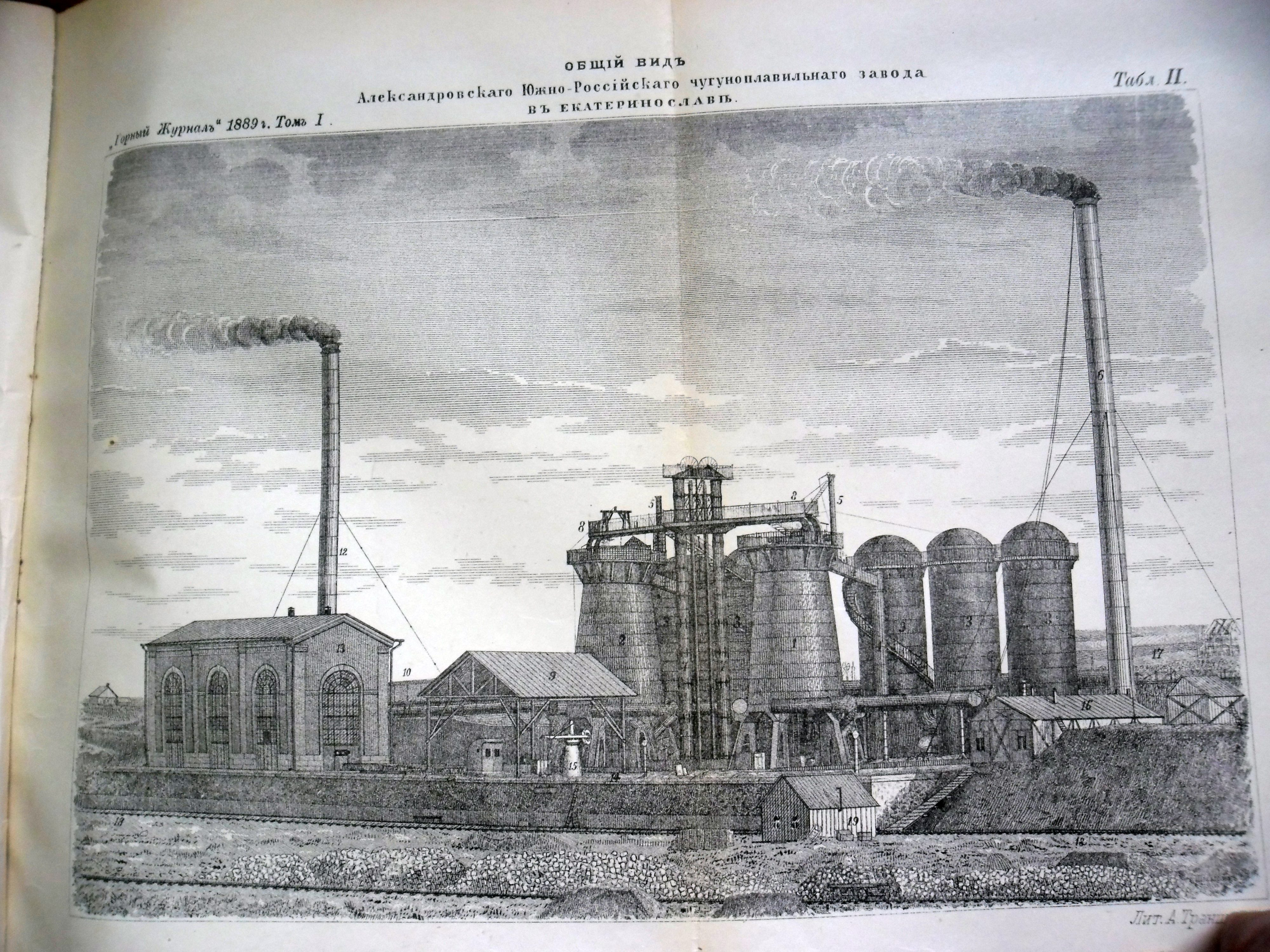 General view of the Aleksandrovsky ironworks in Yekaterinoslav in 1889.